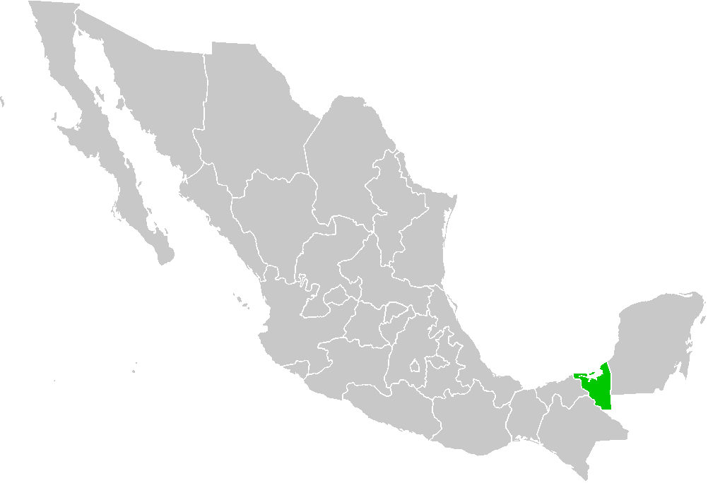 Map of the former Mexican territory of el Carmen